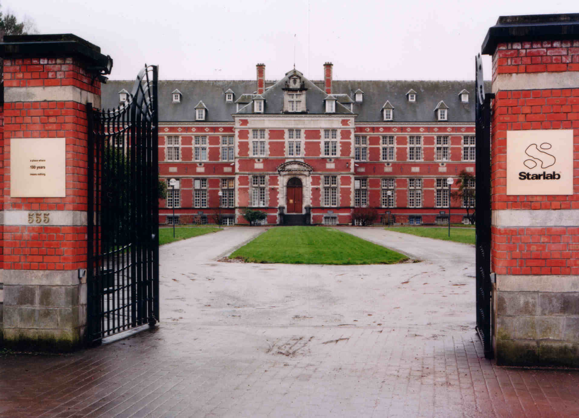 Front gate of Starlab Headquarters · DF-1 Brussels